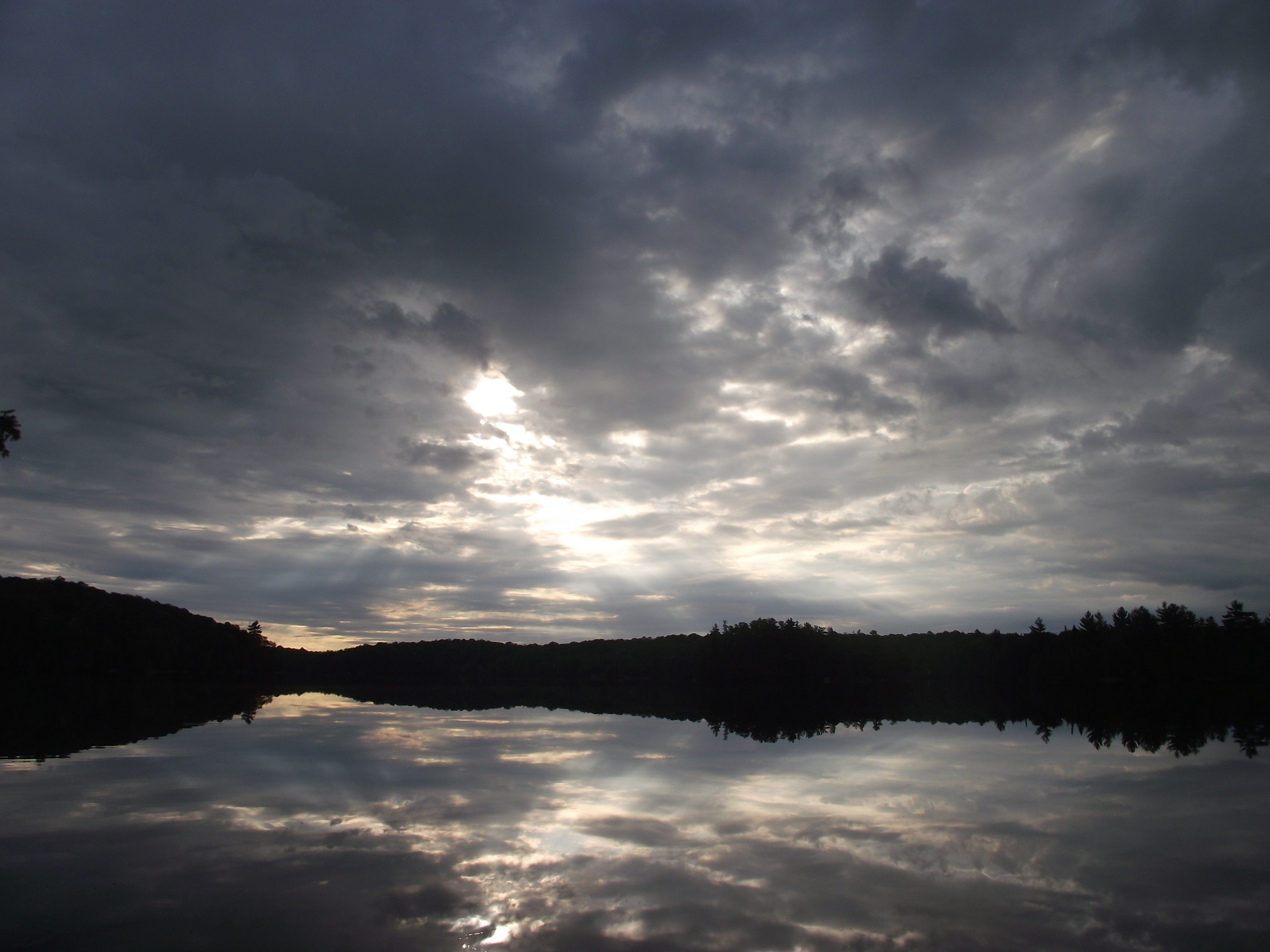 Immediately after the sunrise at the Haliburton Scout Reserve in Haliburton County, Ontario, taken from the Canoe Point campsite.